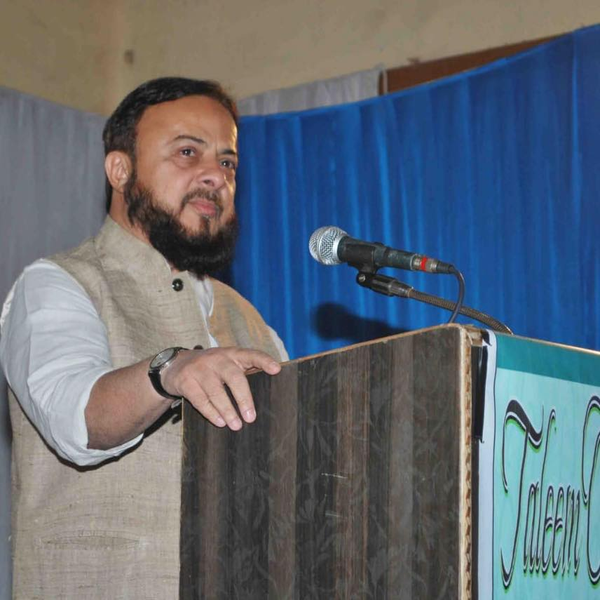 Addressing the audience